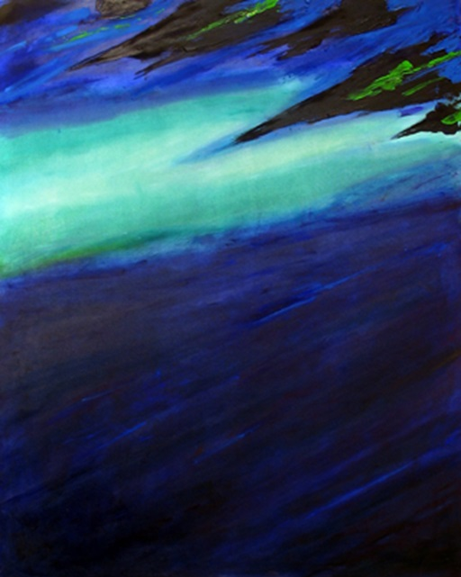 Photograph taken by Misterlobat of work by Rita Letendre to show an example of her recent gestural work.